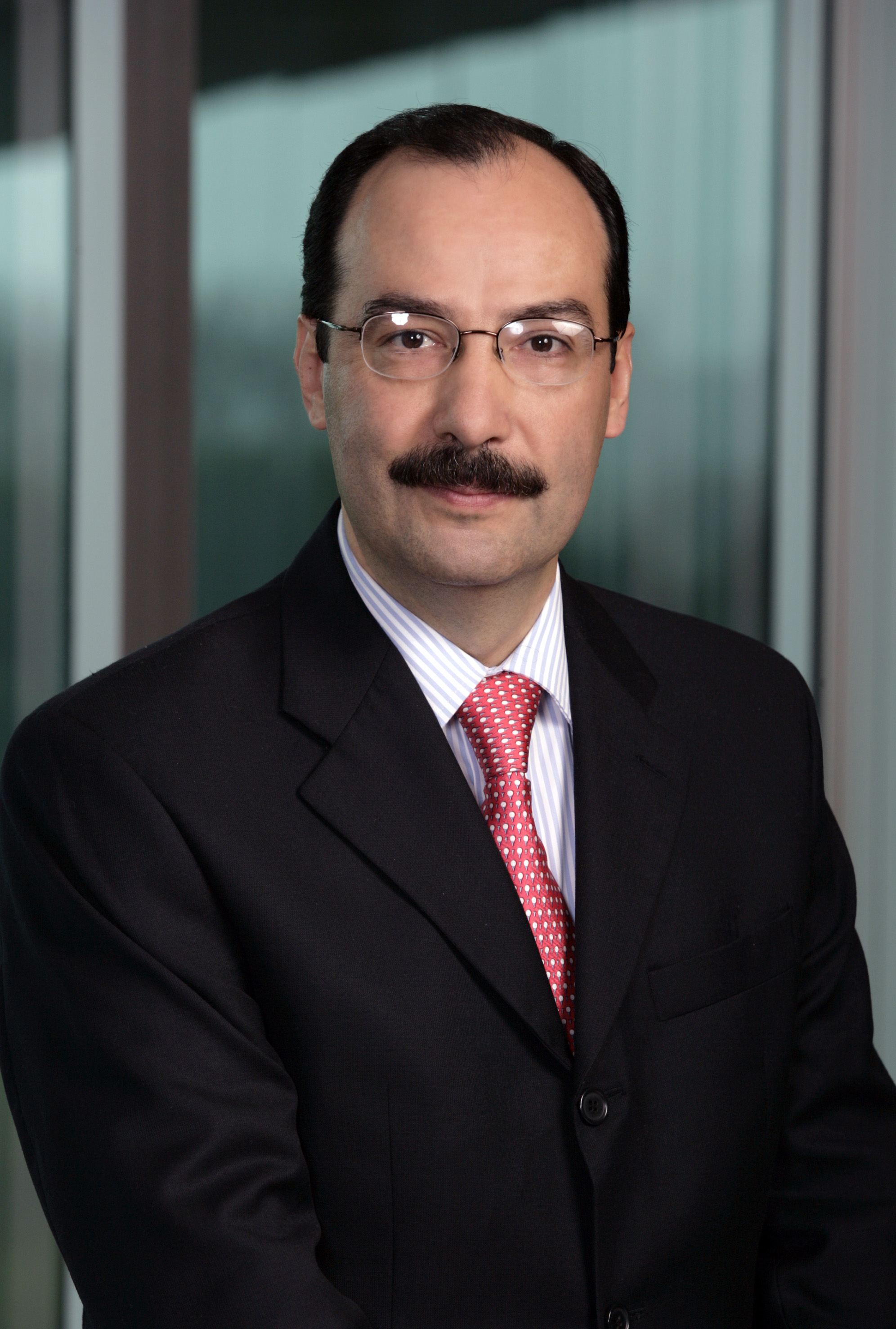 Javier Treviño Depicted person: Javier Treviño – Mexican politician